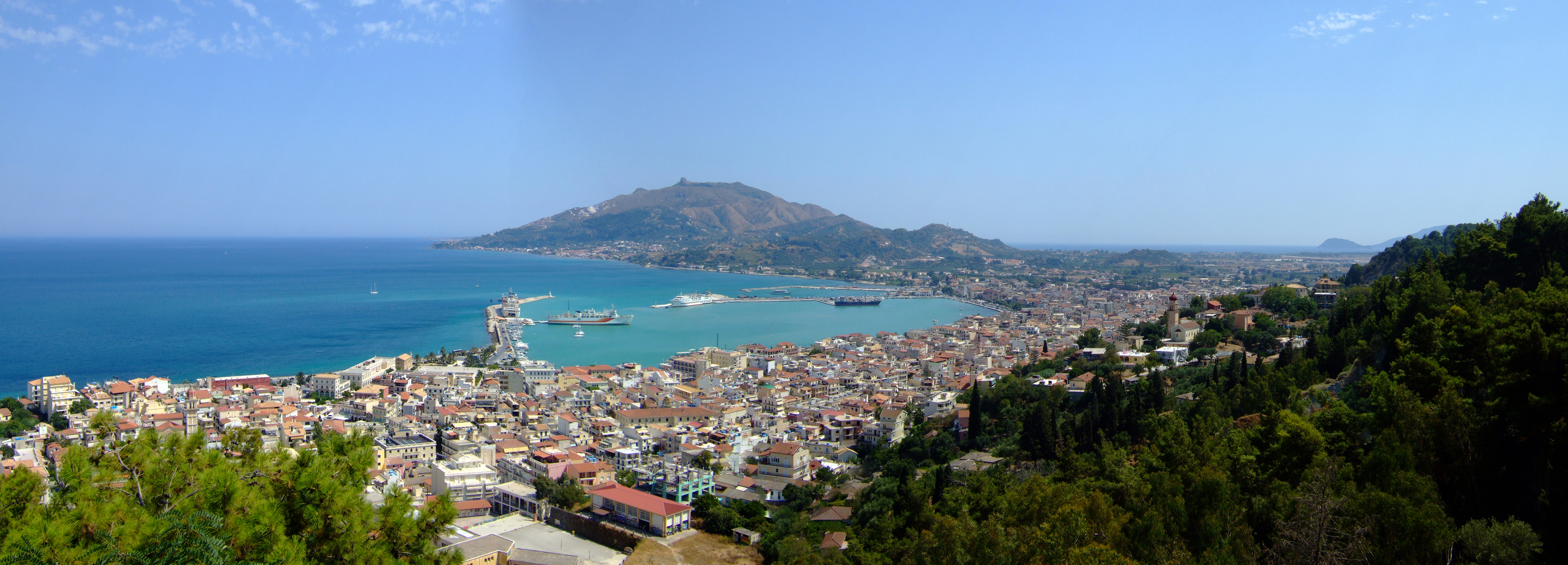 Zakynthos Town, Ionian Islands, Greece